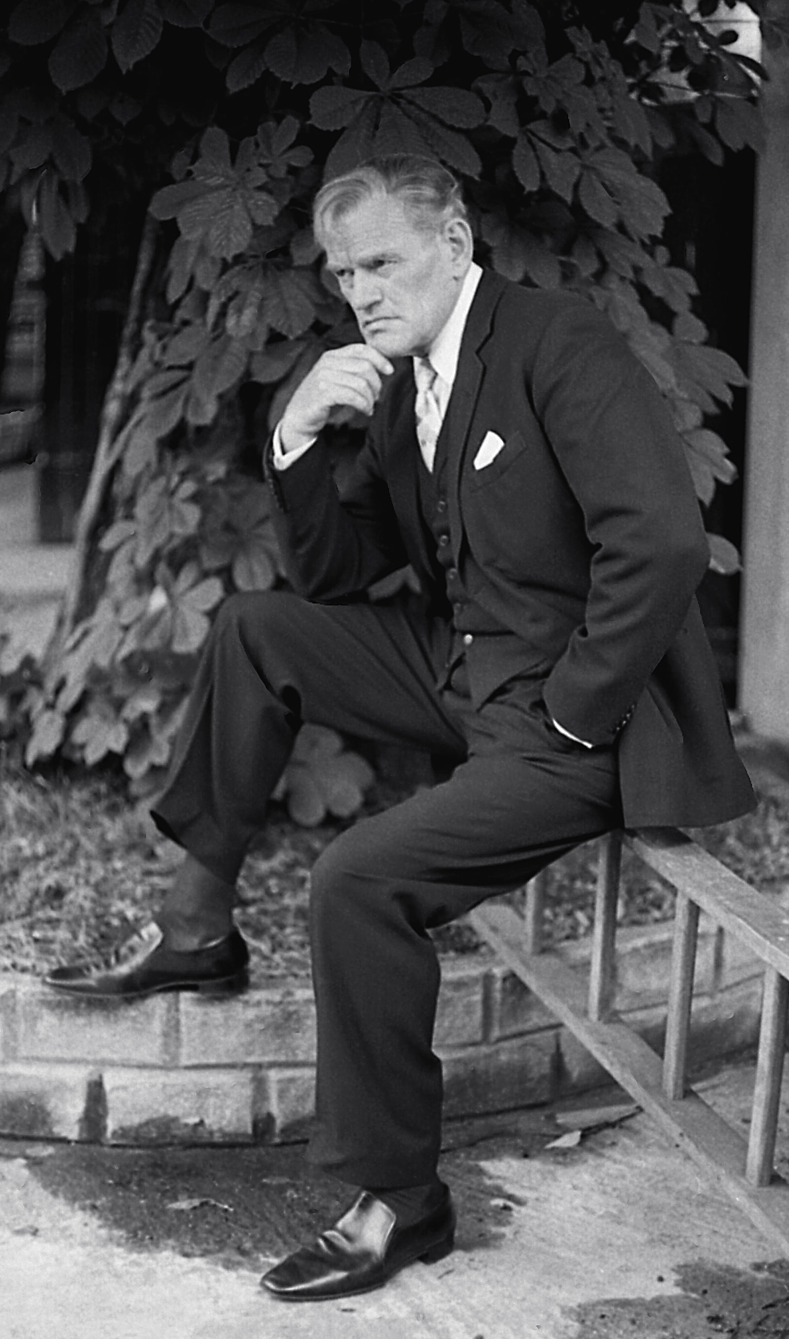 Harry Andrews taken in London